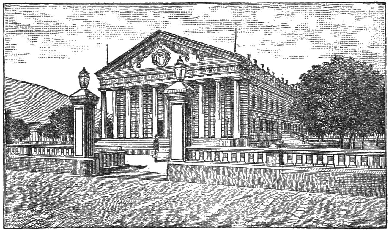 The National Theatre, Guatemala. Knowns a Teatro Colon it was destroyed in 1917-1918 by the earthquakes that leveled Guatemala City.